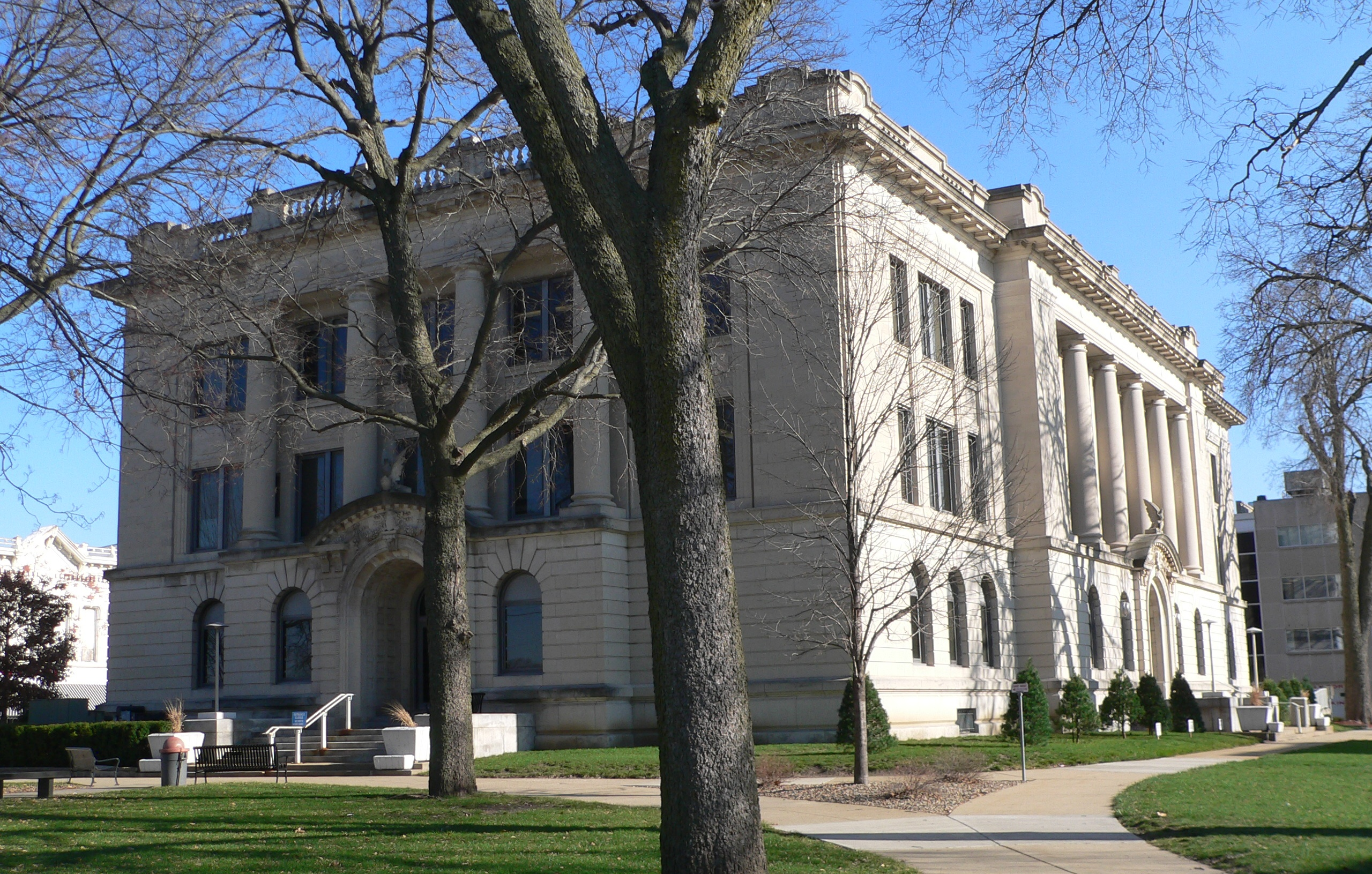 Tazewell County, Illinois courthouse, occupying most of the block between 4th and Capitol and between Elizabeth and Court Streets in Pekin, Illinois. The building's long axis runs northwest-southeast (parallel to Elizabeth and Court). View in the photo is from the west (from about Elizabeth and Capitol).